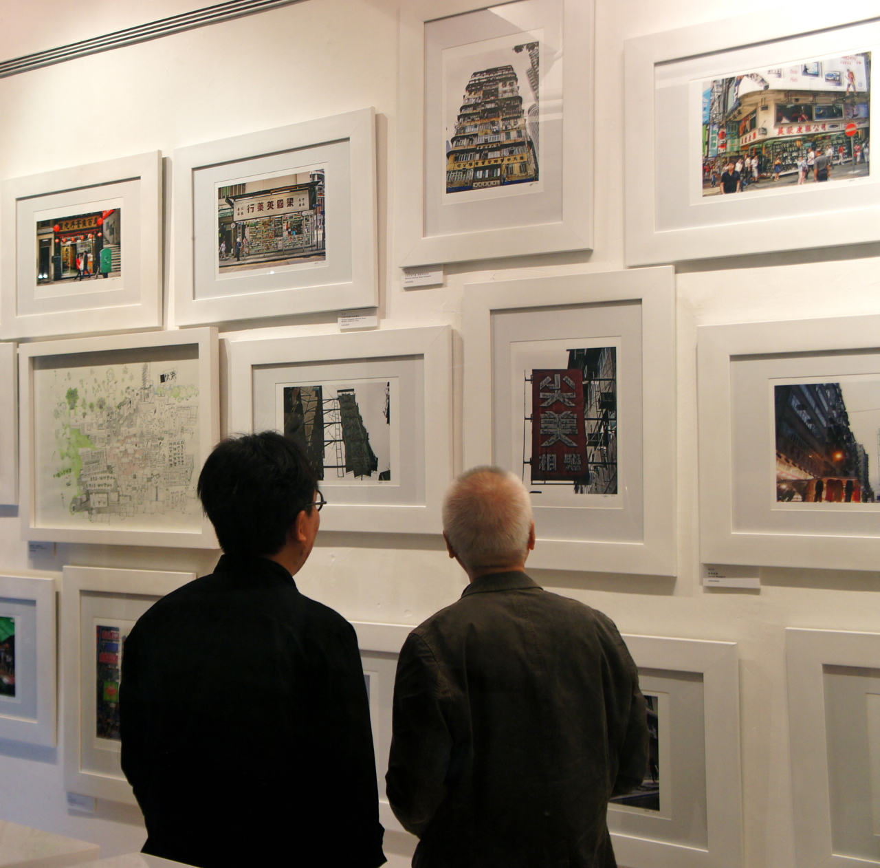 Mathias, one of the co-artistic directors and Kan Tai Keung, the chairperson of Zuni Icosahedron